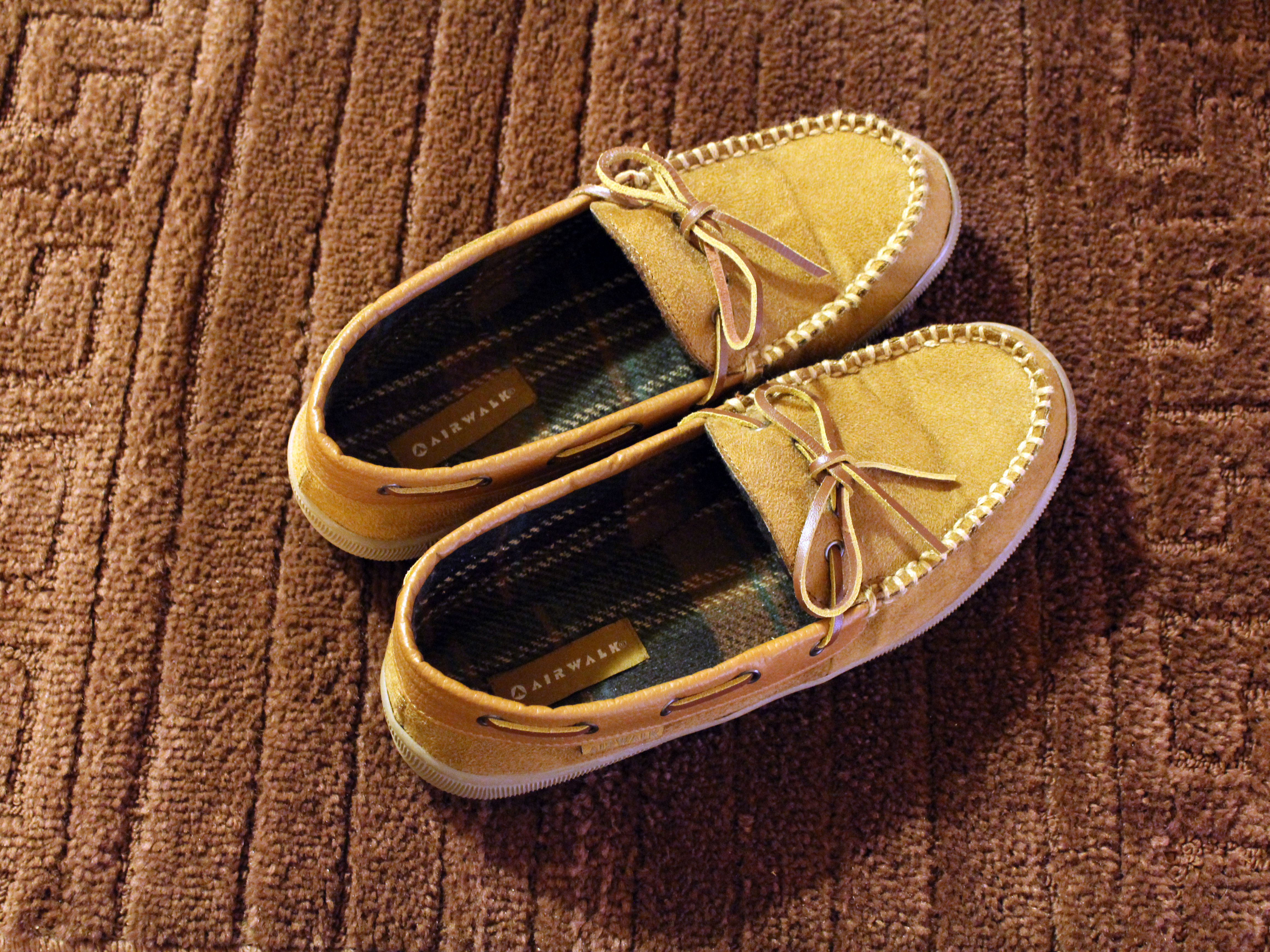 Airwalk Men's Mason Moccasin Slippers.